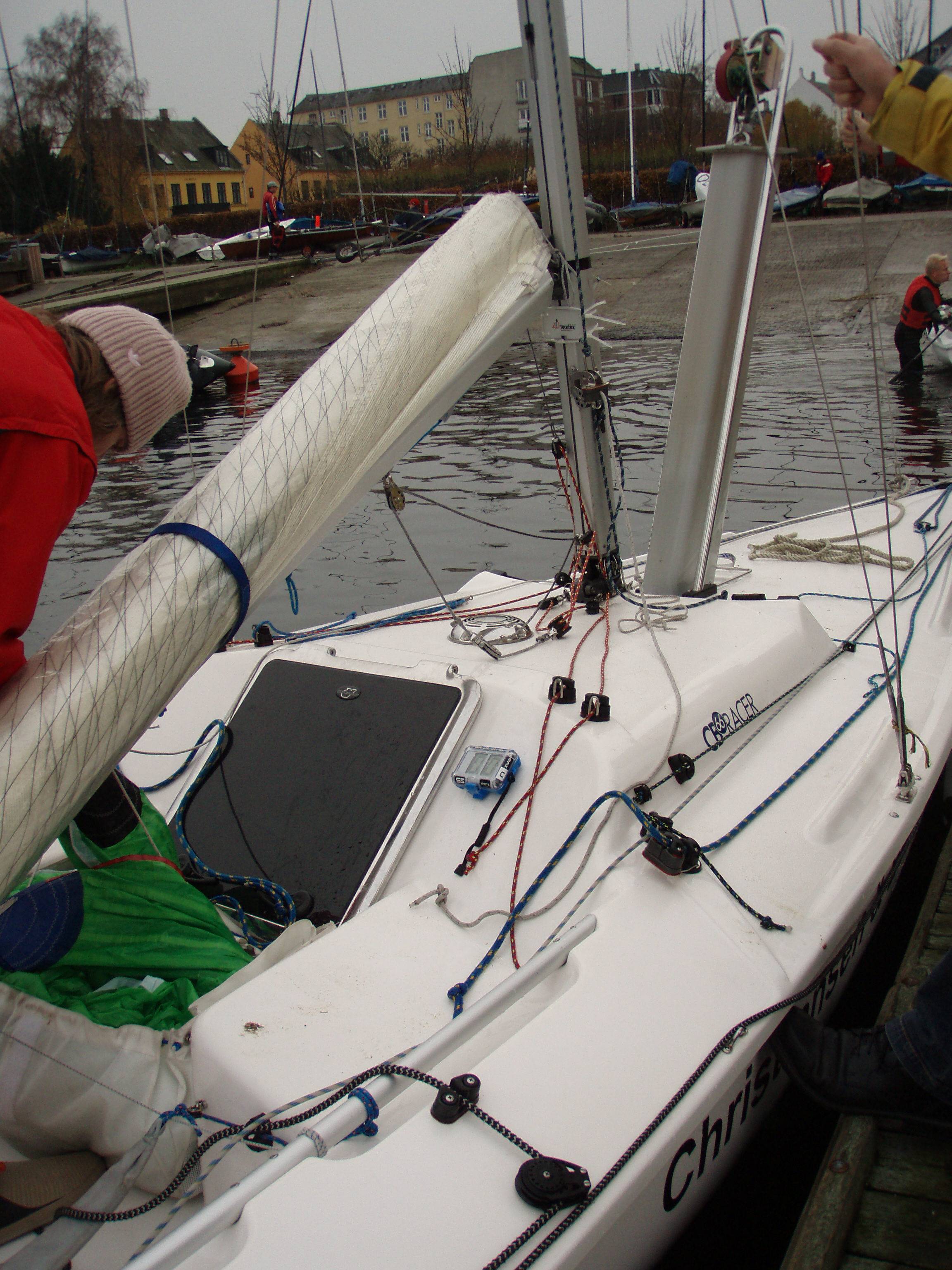 CB66 Racer in Hellerup, Denmark. The keel is raised. November 2006. Picture taken by Liv Juhl Jacobsen.